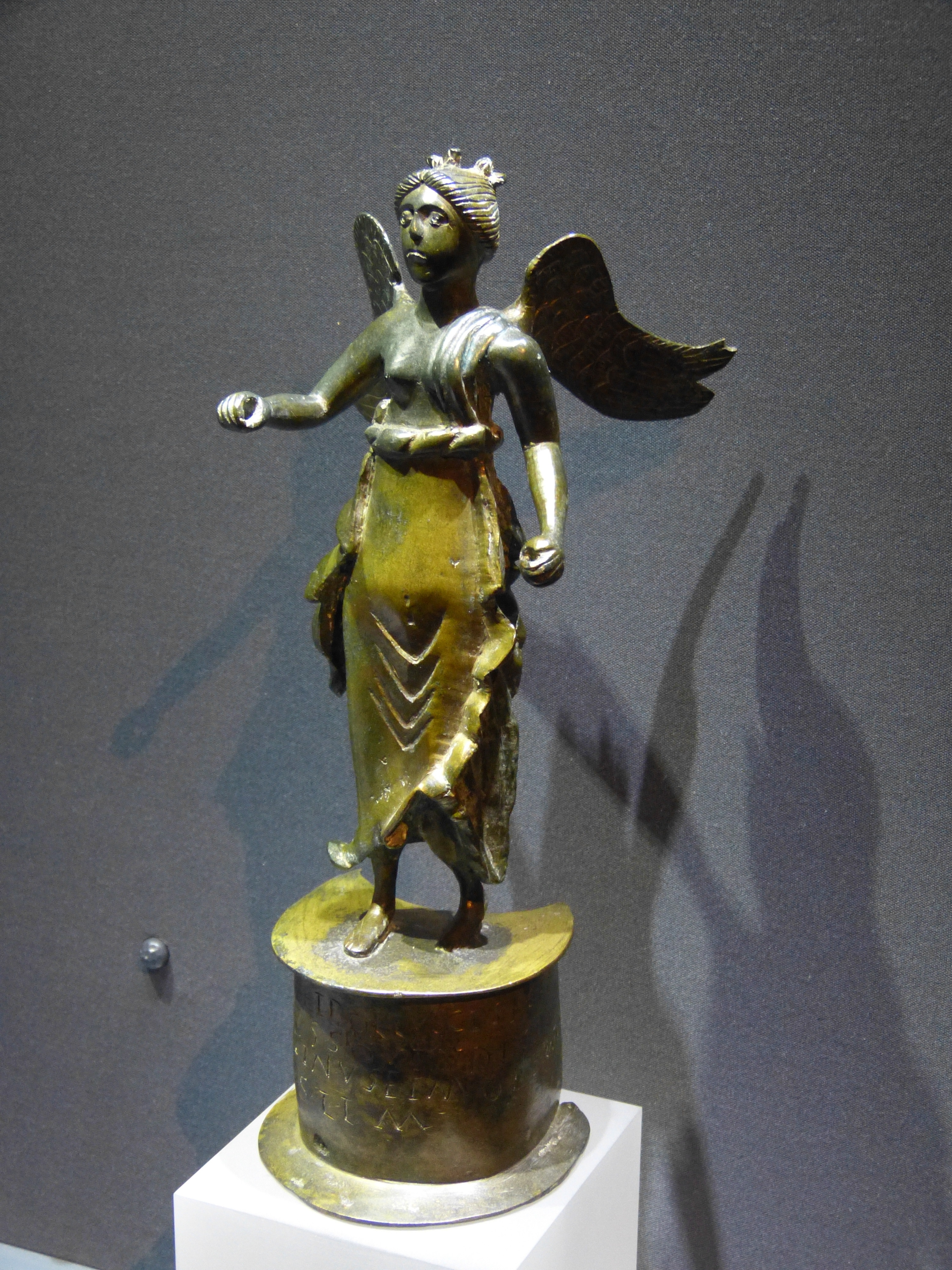 Vienna ( Austria ). Kunsthistorisches Museum: Iupiter Dolichenus hoard ( 2nd/3rd century AD ) from Mauer an der Url - Statue of Victoria, dedicated to Iupiter Dolichenus by Vindicius Florentinus and Vindicius Moderatus.